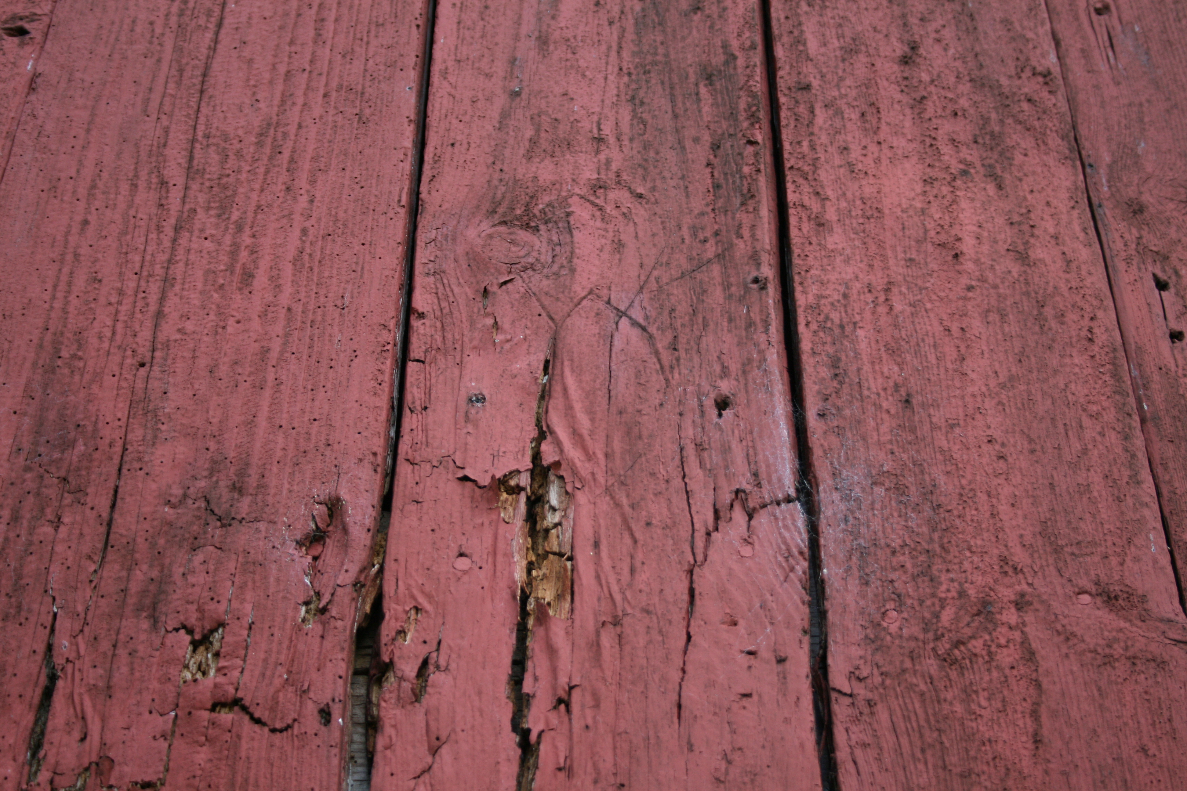 Conte